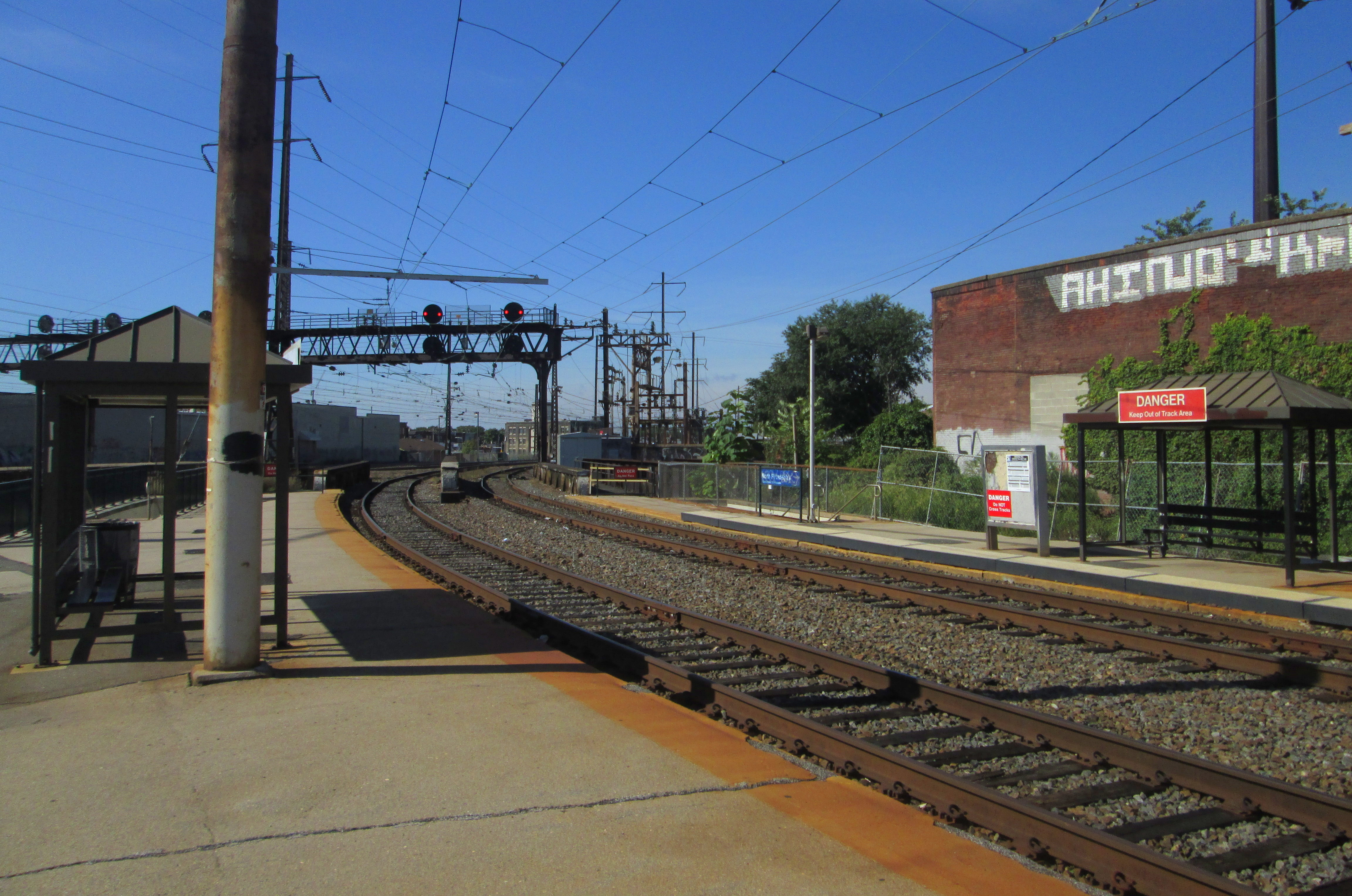 Chestnut Hill West Line platforms at North Philadelphia station in September 2013